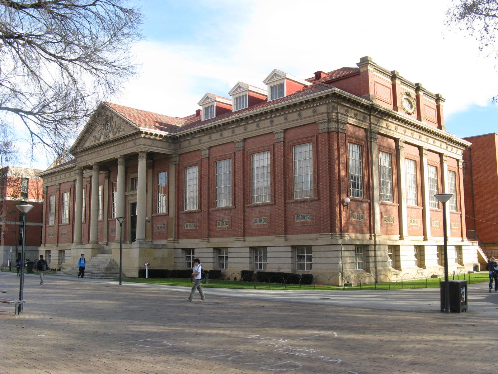 Barr Smith Library, University of Adelaide, North Terrace, Adelaide, Winter 2008. Category:Academic libraries